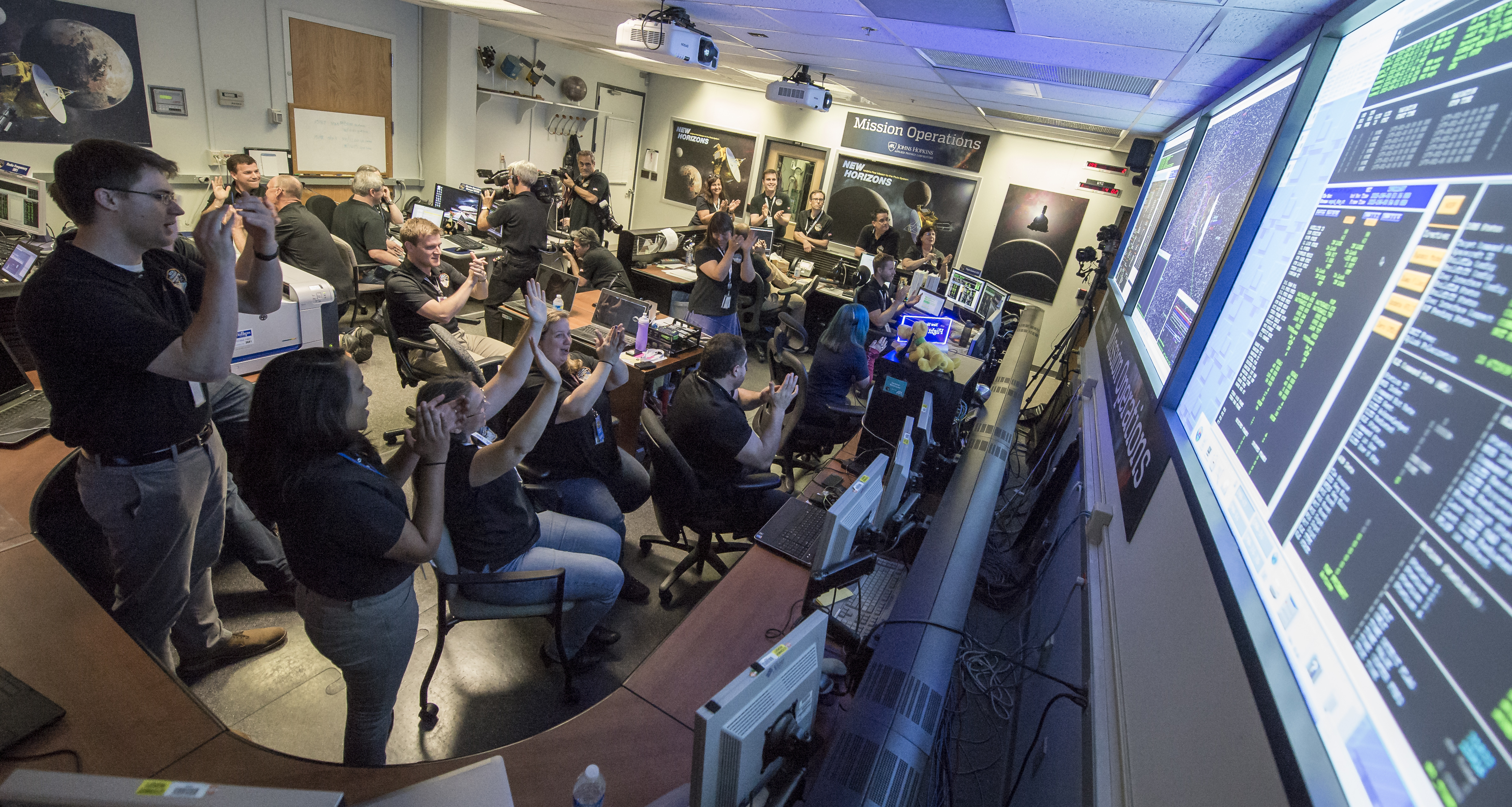 NASA - NEW HORIZONS CALLS HOME AFTER PLUTO FLYBY July 14, 2015 (00:52:37 UTC - 20:52:37 EDT) New Horizons Flight Controllers celebrate after they received confirmation from the spacecraft that it had successfully completed the flyby of Pluto, Tuesday, July 14, 2015 in the Mission Operations Center (MOC) of the Johns Hopkins University Applied Physics Laboratory (APL), Laurel, Maryland.